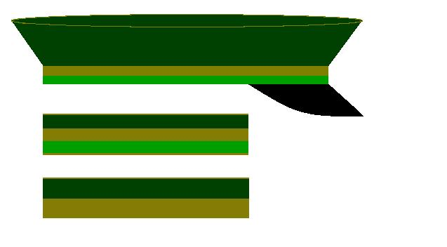 Coleur Hubertia München